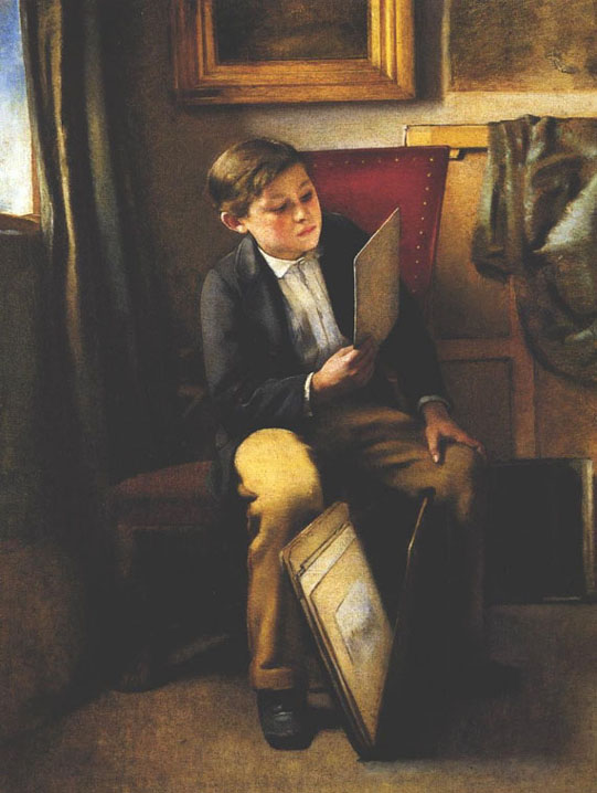 Student, painting by Ioannis Zacharias